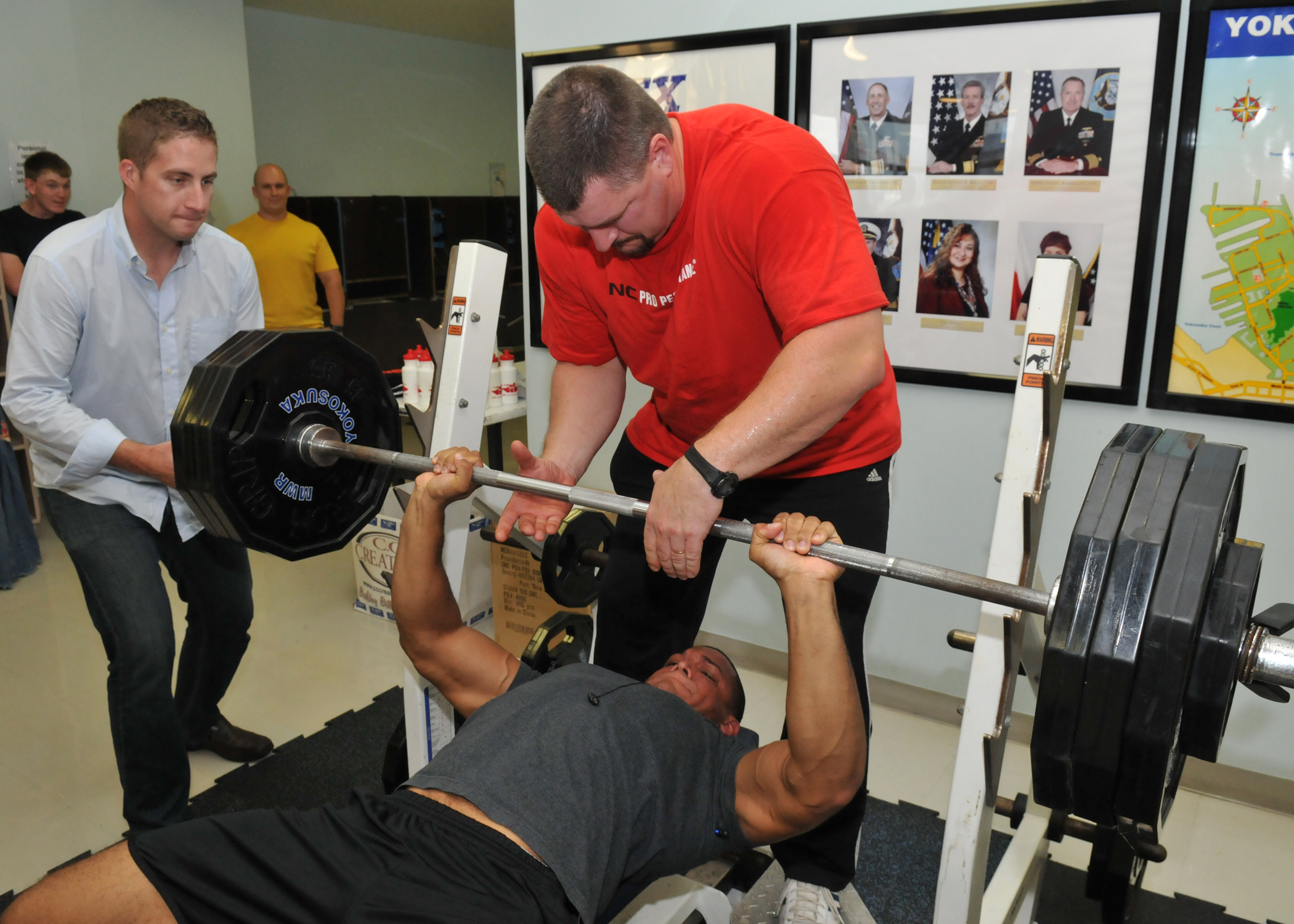 YOKOSUKA, Japan (Sept. 13, 2010) American professional iron man athlete Karl Gillingham spots Hospital Corpsman 2nd Class Ardinis Strickland, from Dallas, during a bench press competition at the Fleet Recreation Center at Commander Fleet Activities Yokosuka. Gillingham visited Yokosuka during his tour of Japan installations to meet with forward-deployed service members. (U.S. Navy photo by Mass Communication Specialist 1st Class Brock A. Taylor/Released)